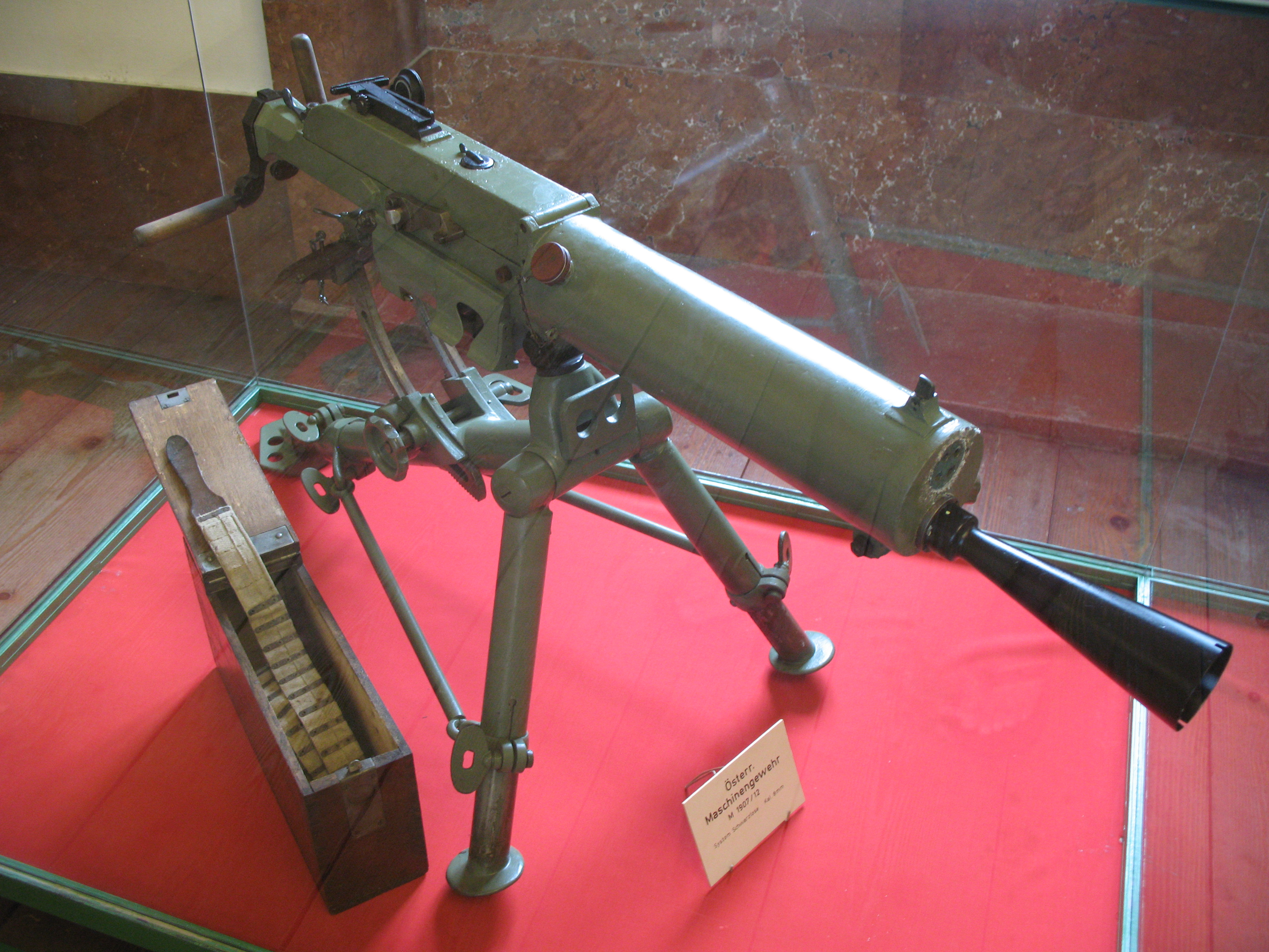 Austrian Machinegun, 1907/12 (6mm Caliber); High Fortress, Salzburg, Austria